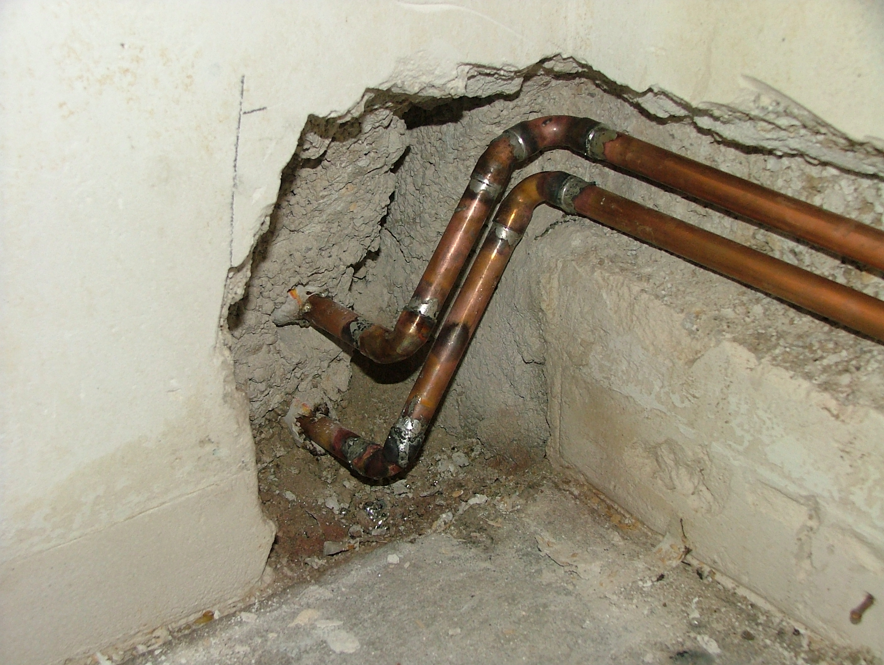 Soft-soldered piping and plumbing fittings on a copper made pipework